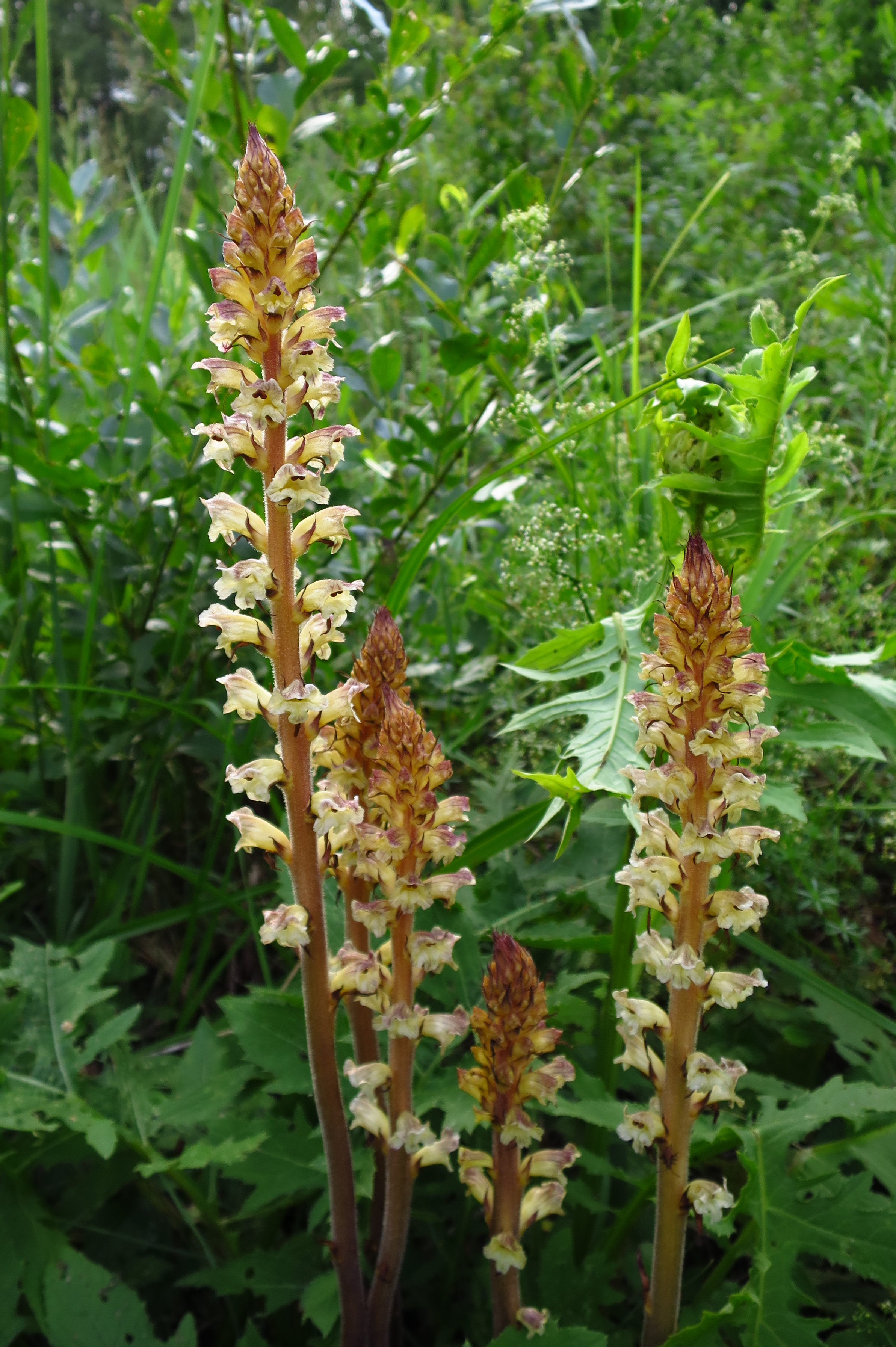 Orobanche pallidiflora in Estonia